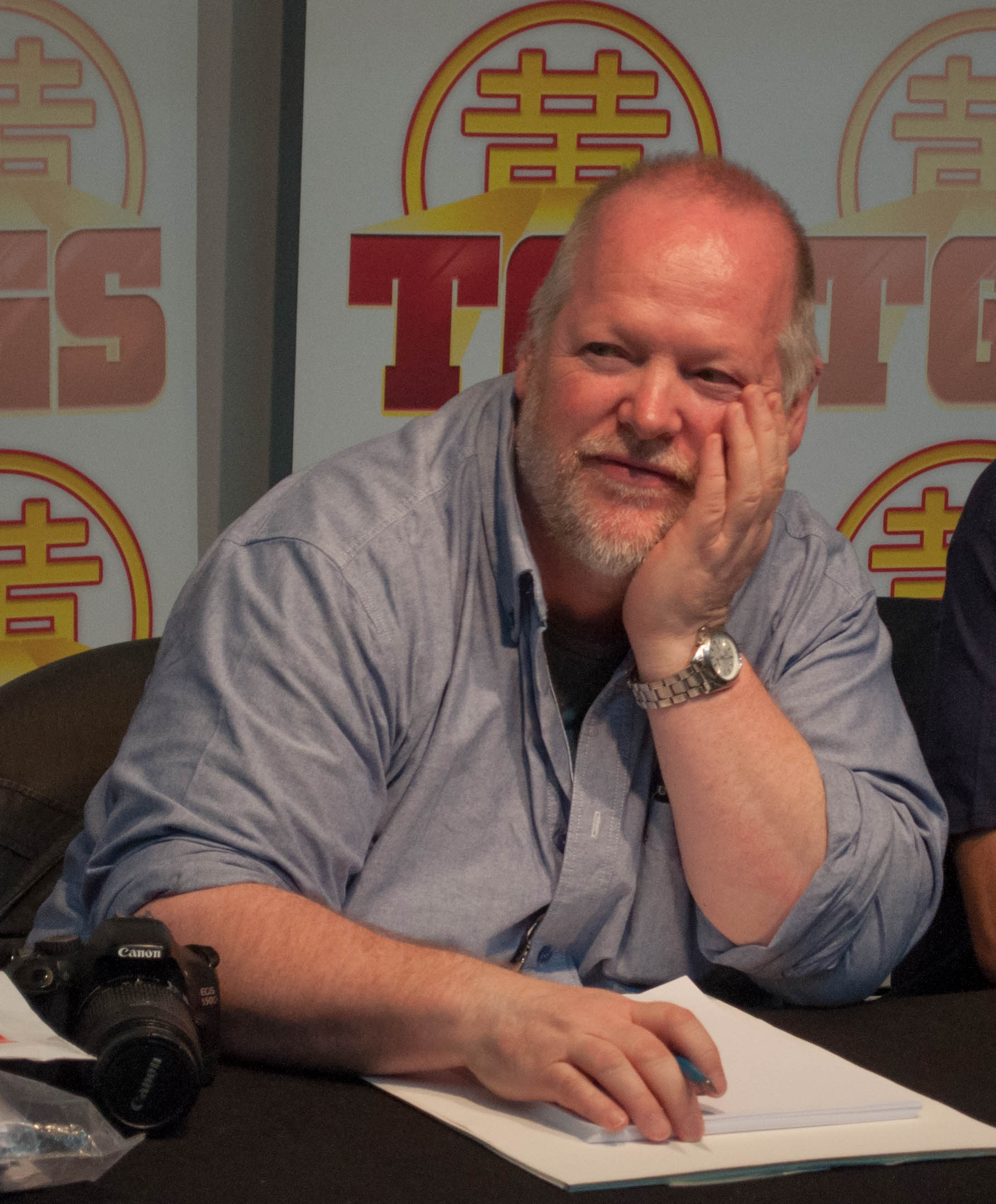 Will Simpson giving a signing session at Toulouse Game Show 2014.